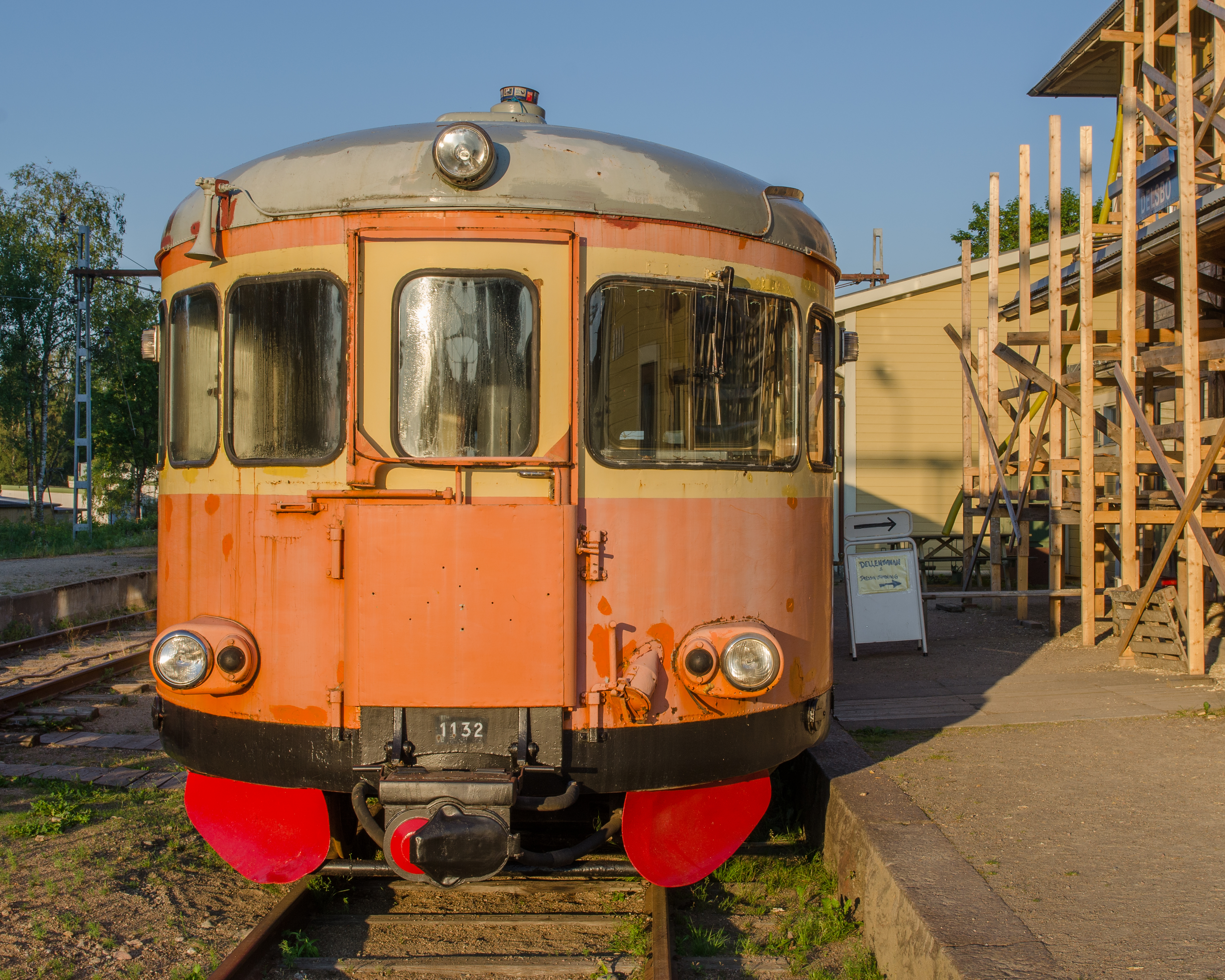 Y8 diesel railcar at Delsbo station, Dellenbanan railway. The railway was closed 1986, but the railcar is used for museum traffic in the summer.